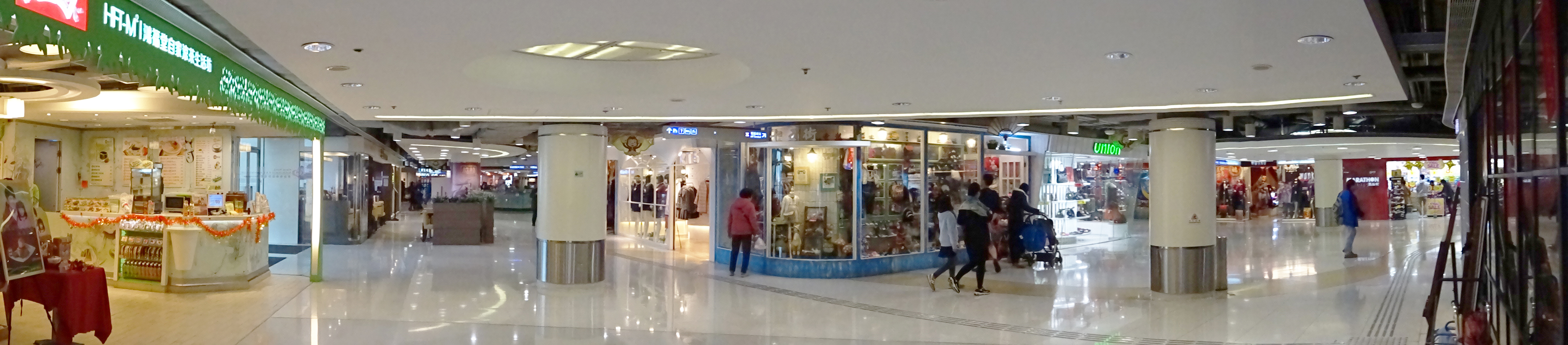 Ocean Walk in Tuen Mun, Hong Kong.